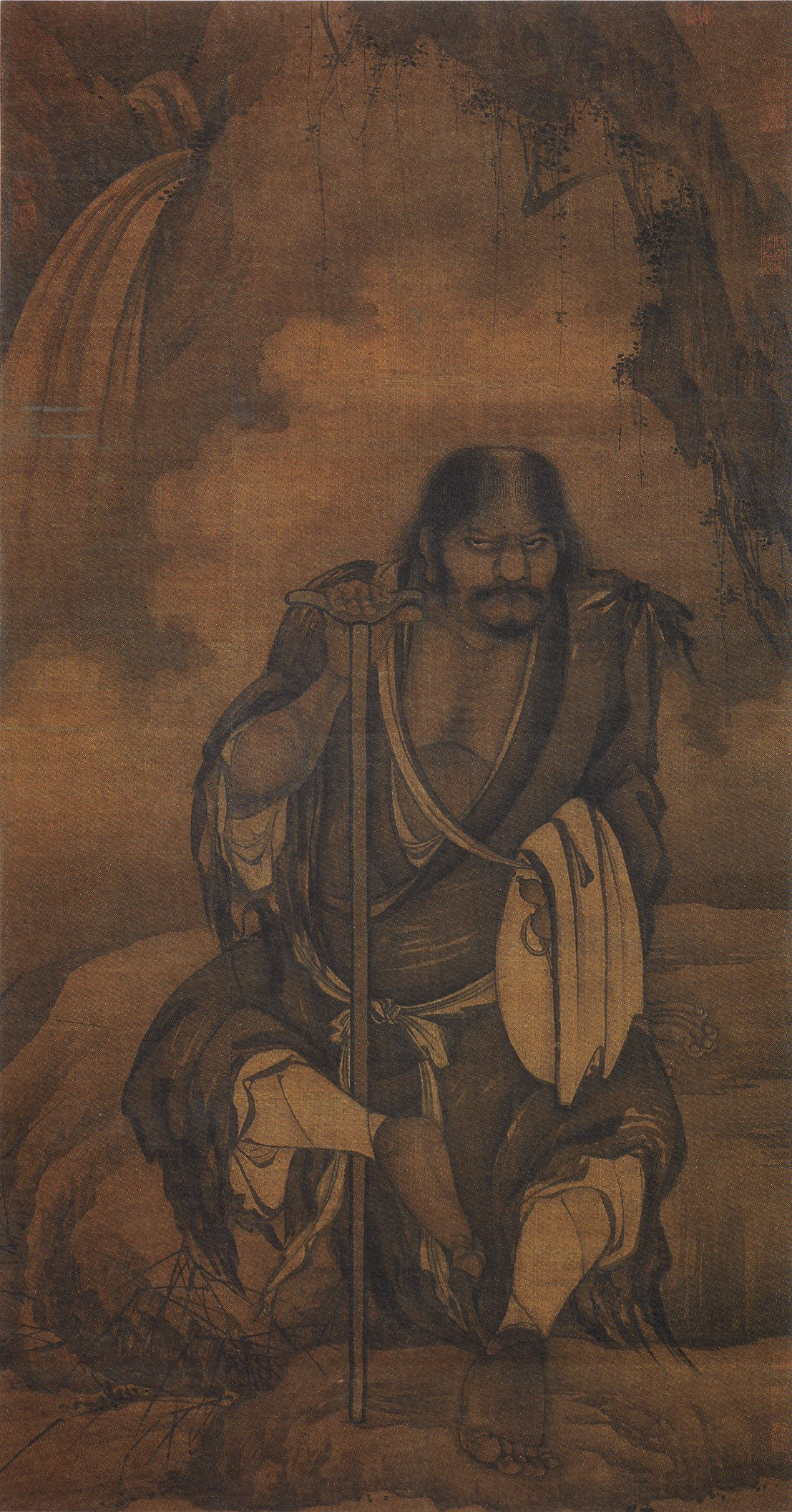 Li Xian - hanging scroll, ink and color on silk, 131.8 x 67 cm. Located in the National Palace Museum, Taibei.